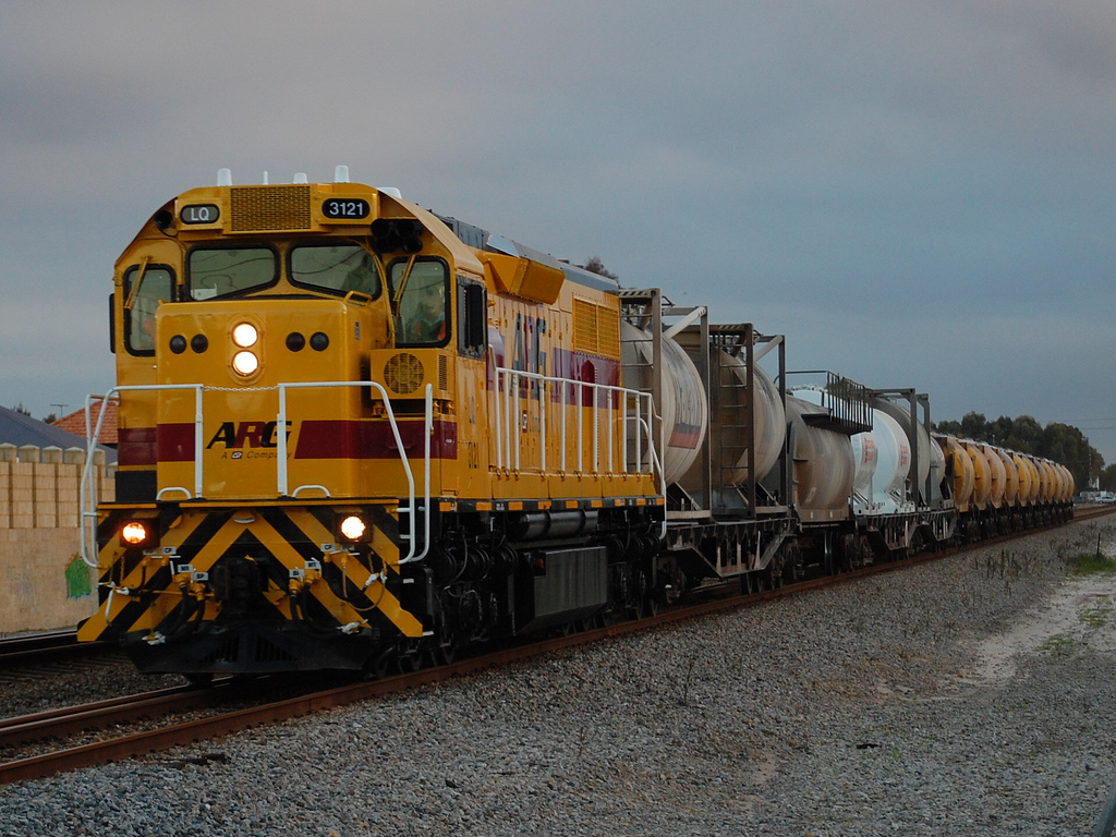 LQ3121 in ARG Livery on 3197 Cement Train at Thornlie